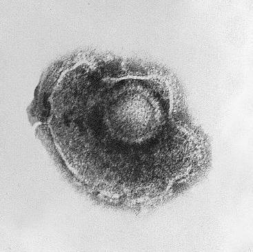 Electron micrograph of a Varicella (Chickenpox) Virus. Varicella or Chickenpox, is an infectious disease caused by the varicella-zoster virus, which results in a blister-like rash, itching, tiredness and fever.